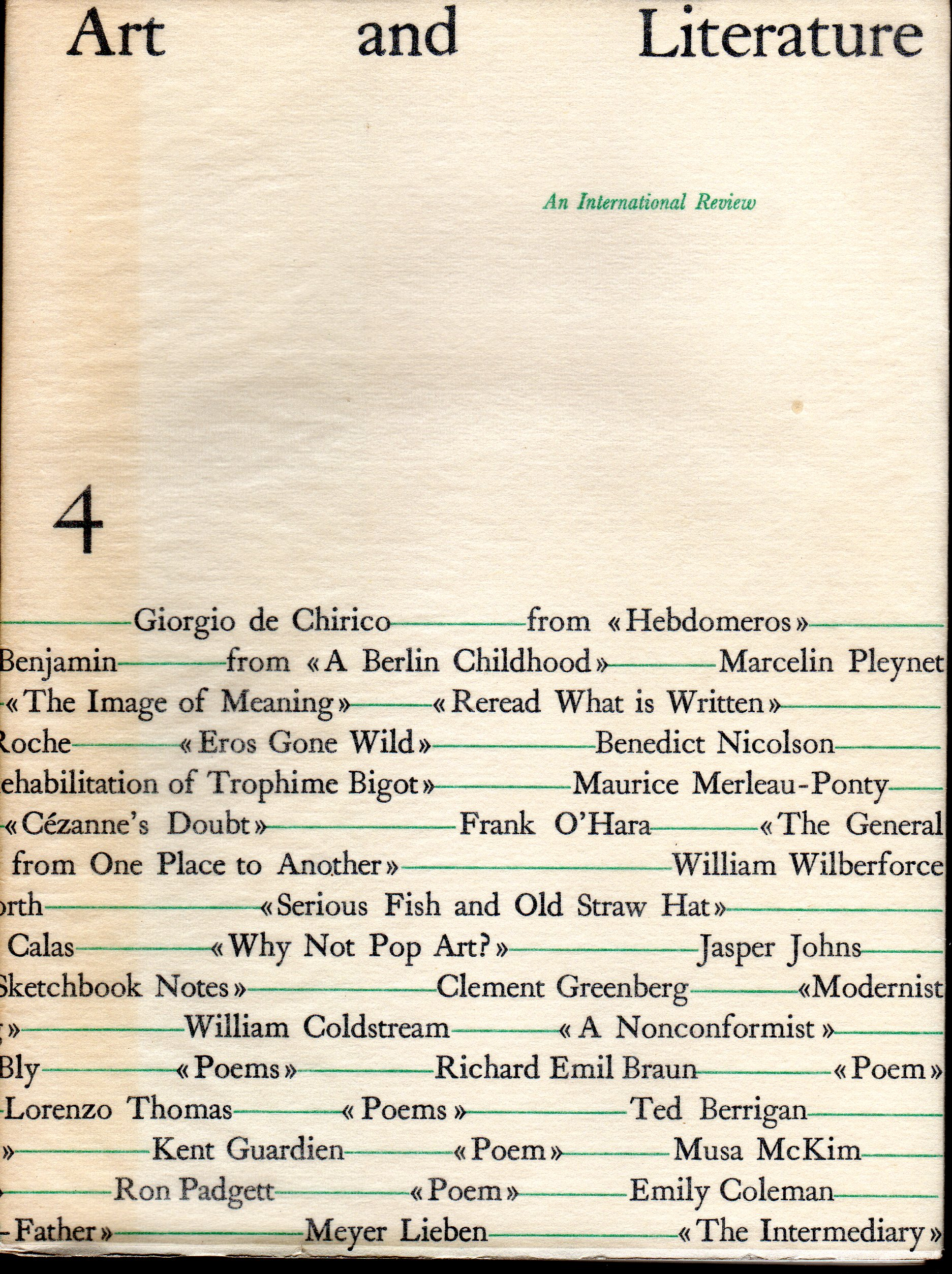 The cover of the Autumn–Winter 1964 issue of the magazine Art and Literature (No. 4).